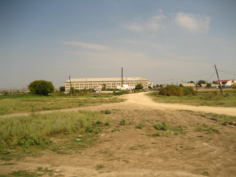 Hospital in Taskala West Kazakstan